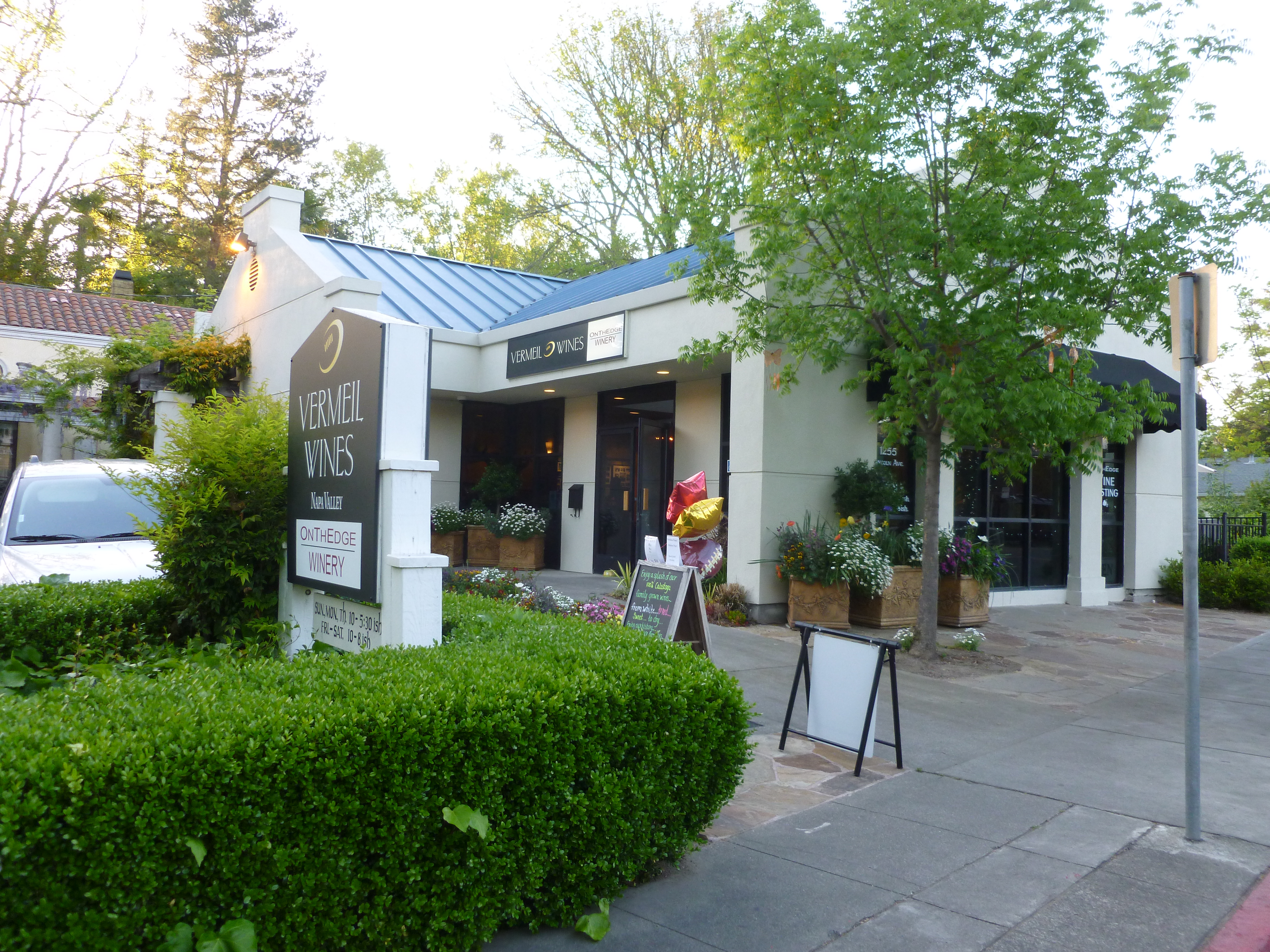 Vermeil Wines/On The Edge Winery, one of several wine stores along Lincoln Avenue in Calistoga, CA. Located at 1255 Lincoln Avenue Calistoga, CA 94515-1742.